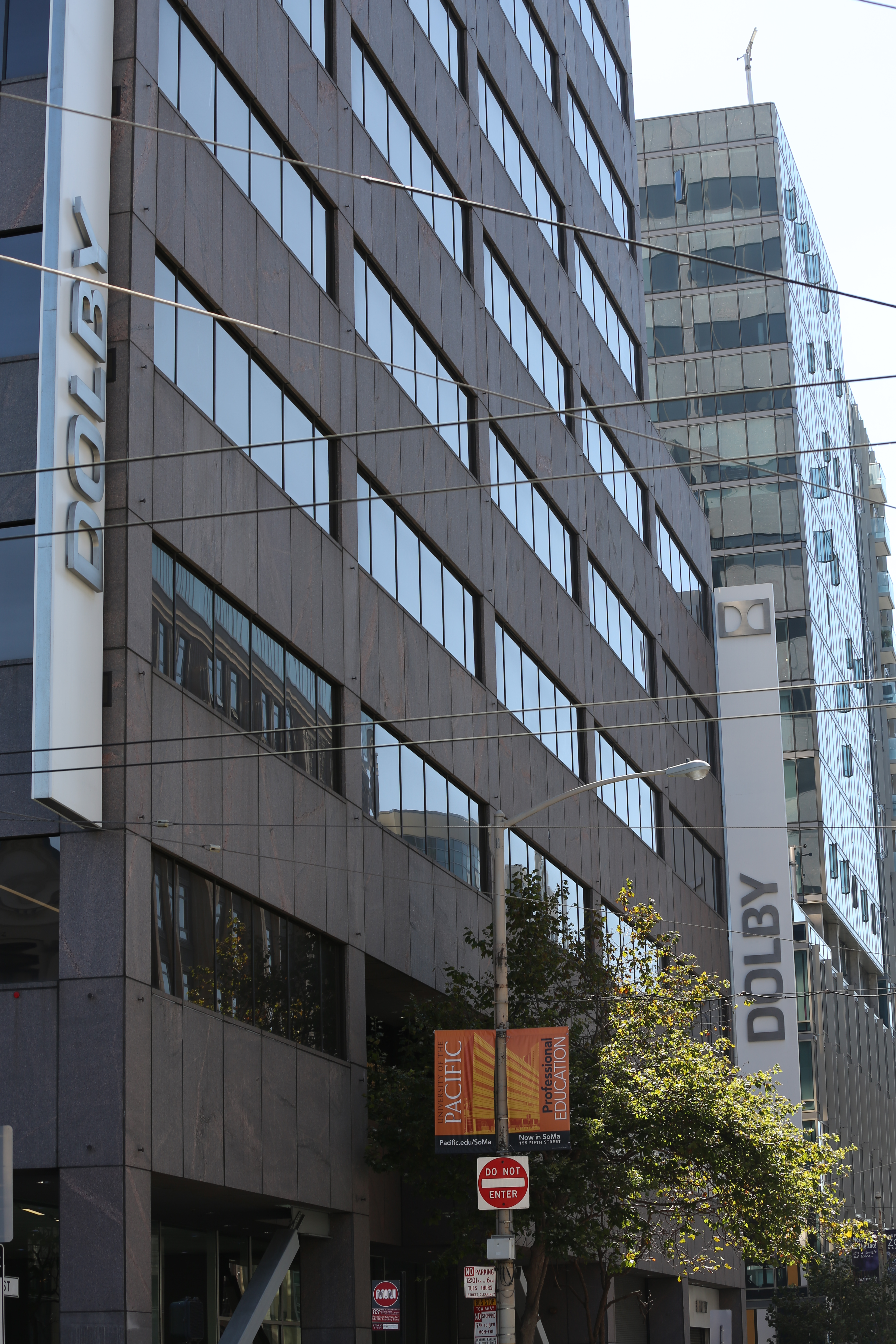 Dolby Laboratories in San Francisco (TK1). 9th Street and Market Street.